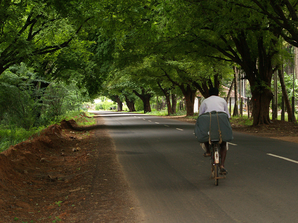 A road in Coimbatore district